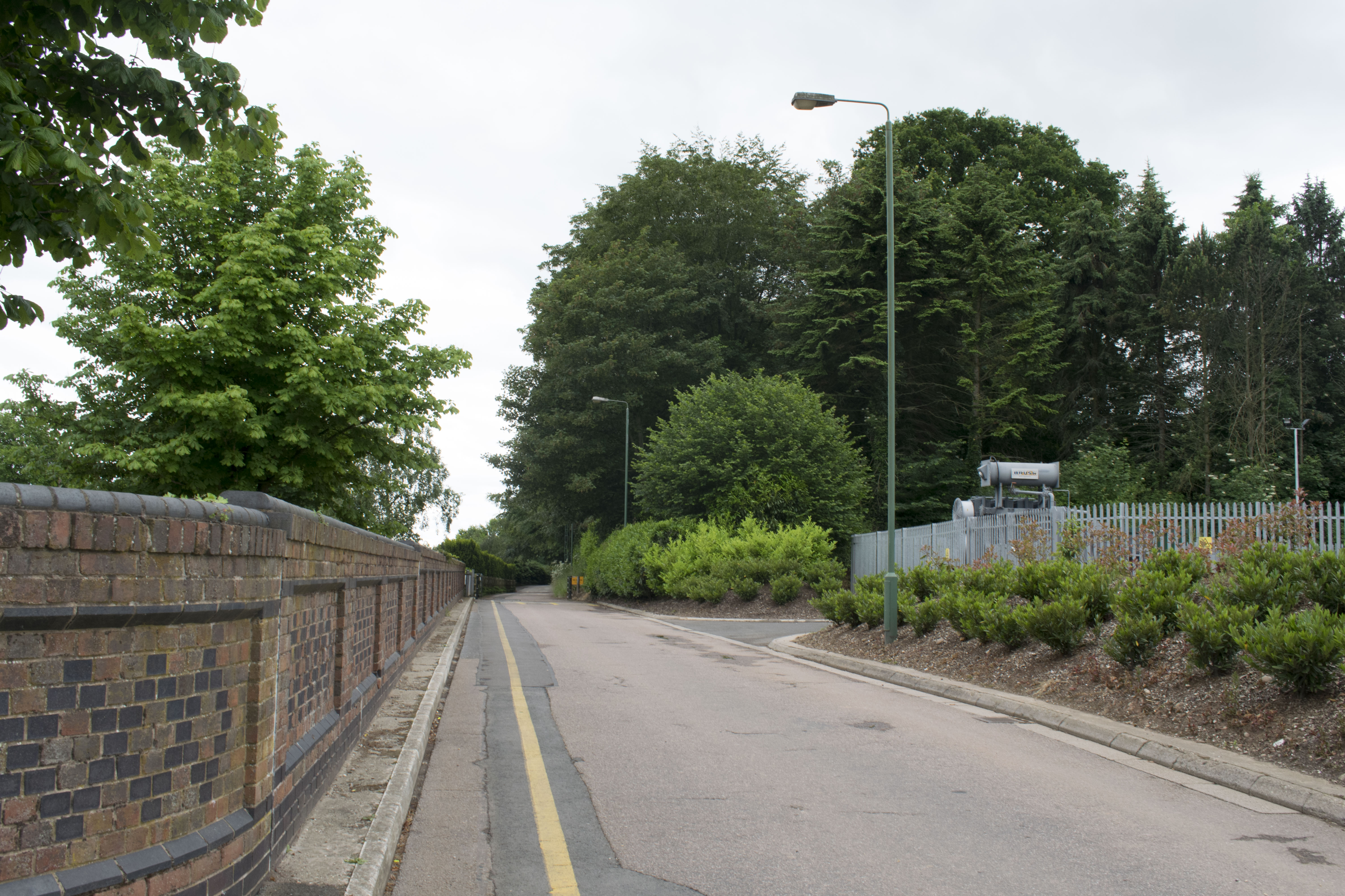 My own.